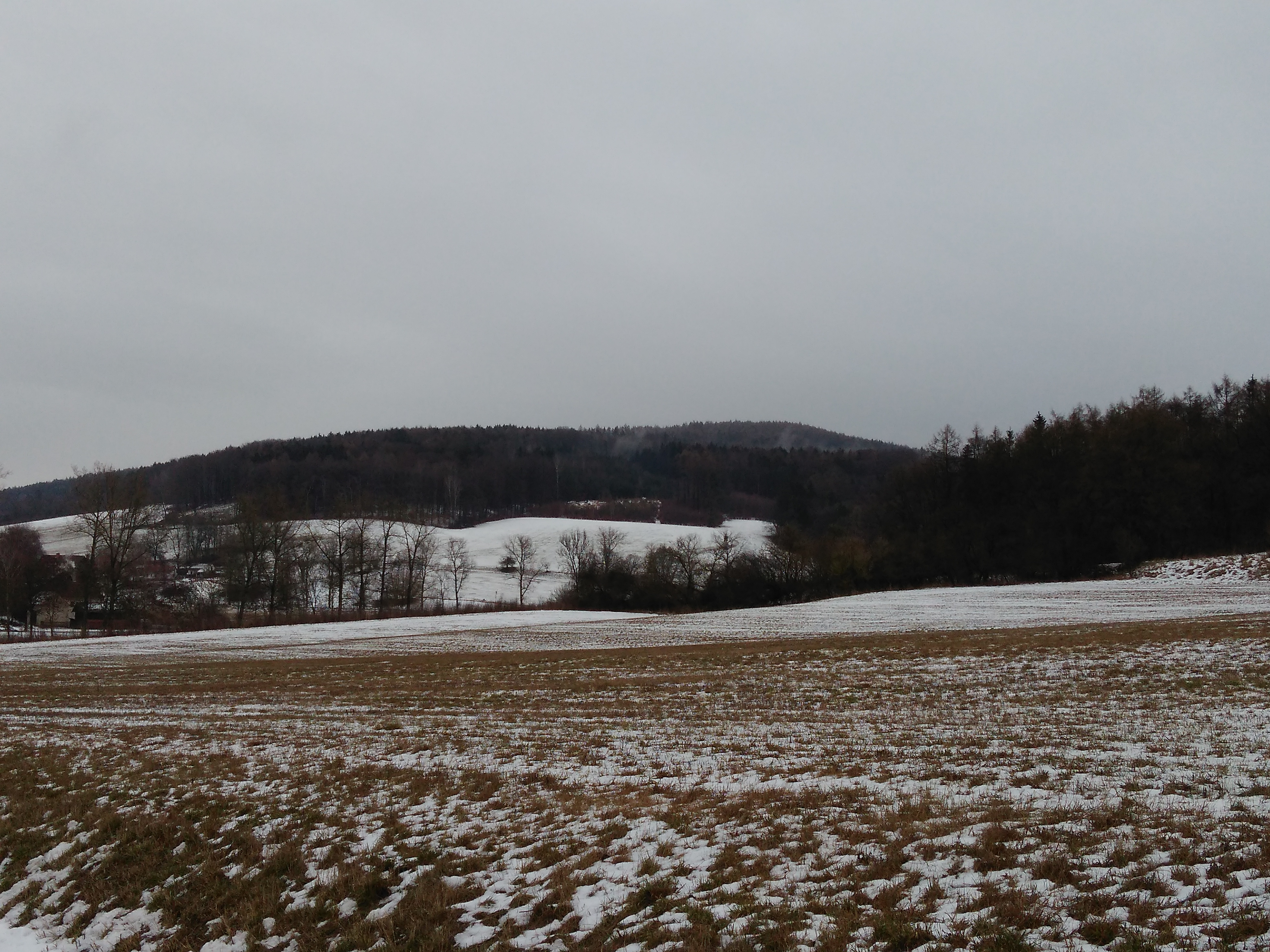 Hills in Jičín District